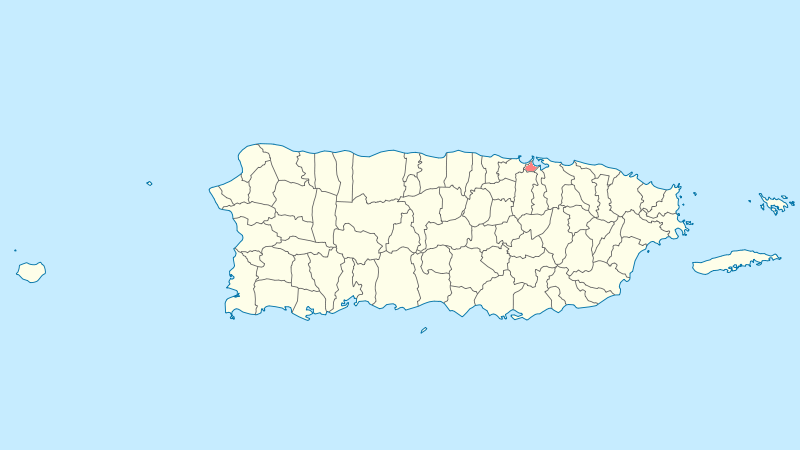 Municipal locator of Puerto Rico